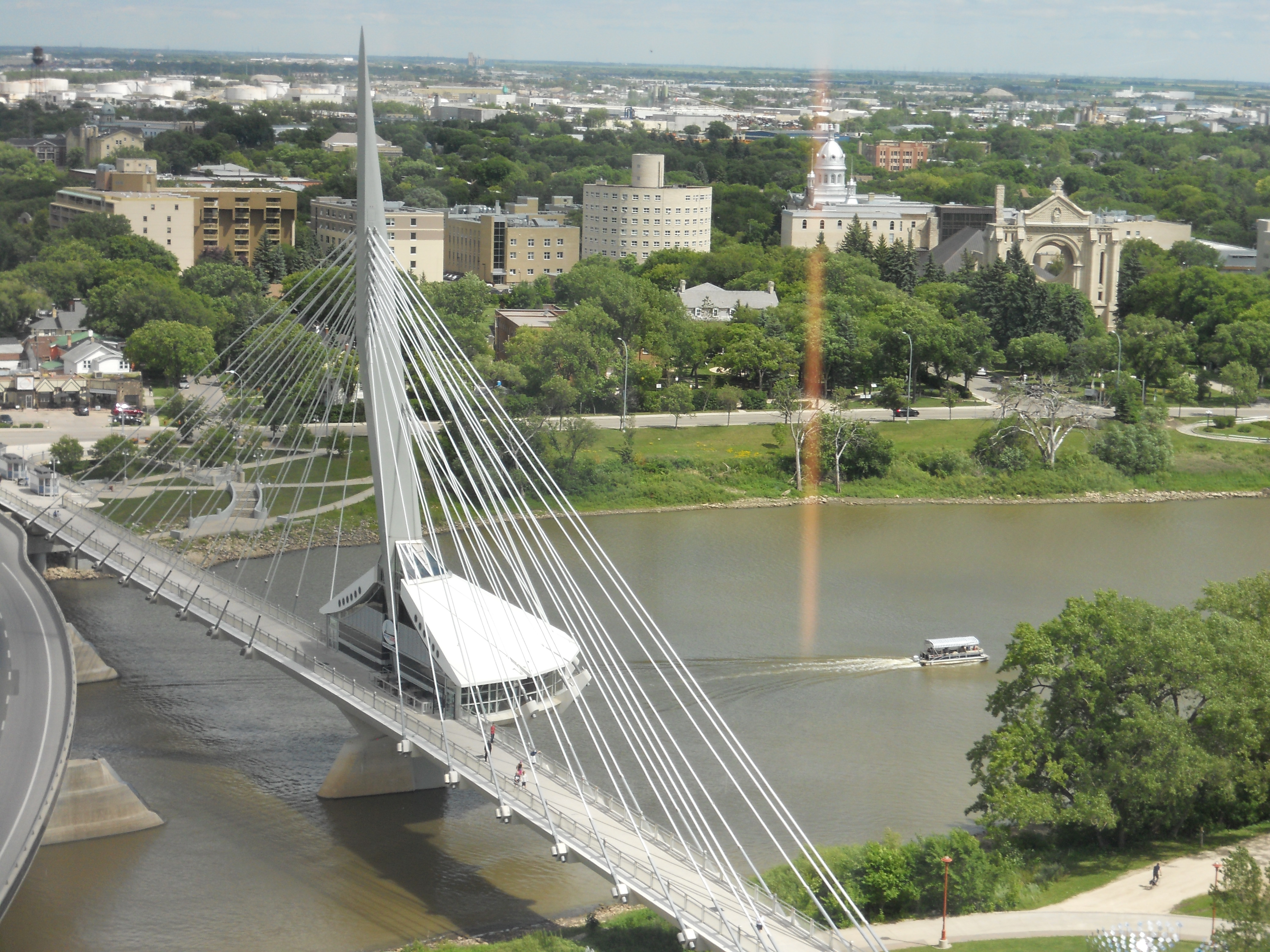 Esplanade Riel (2017.)